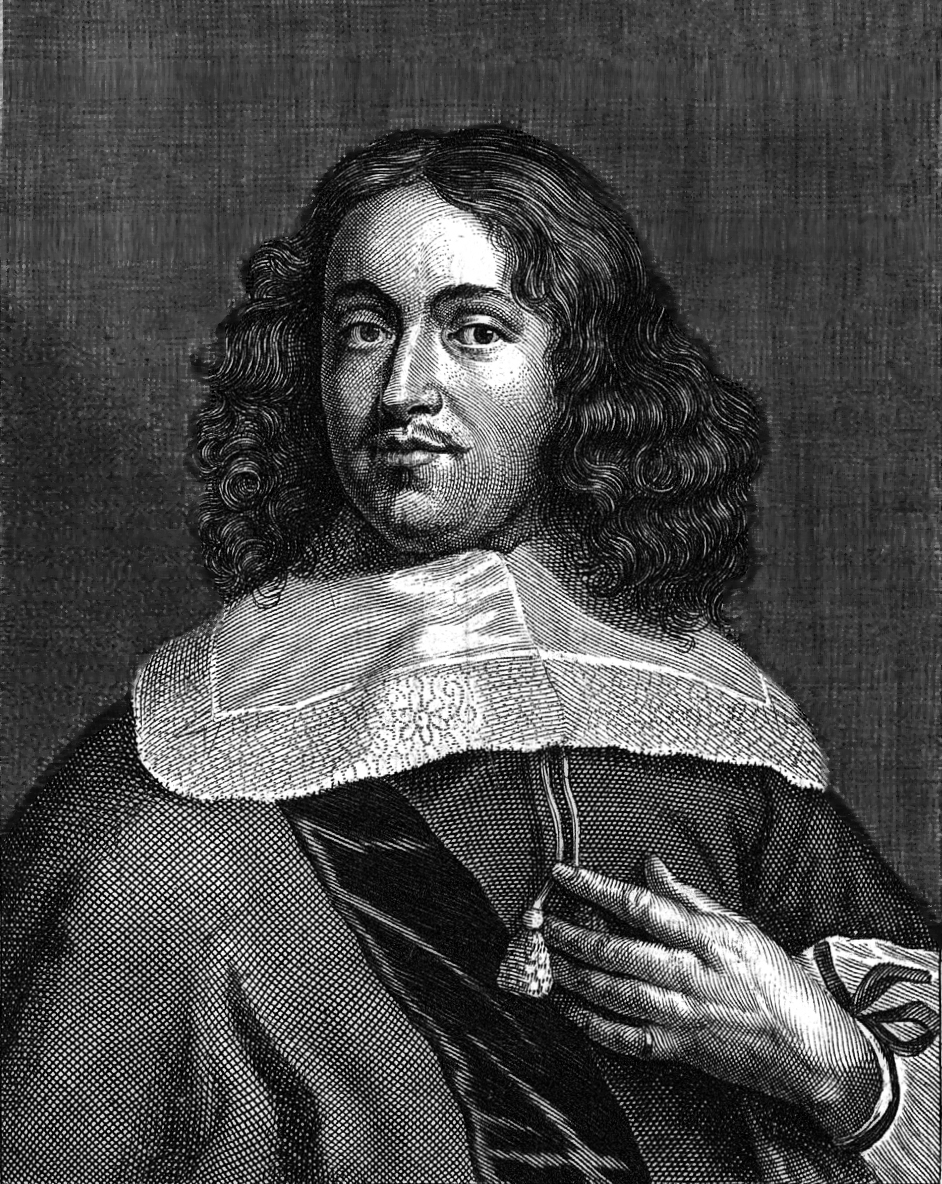 Het Gulden Cabinet, painter biographies by Cornelis de Bie for the Antwerp publisher-engraver Jan Meyssens, 1662 Henry Berkmans p 415